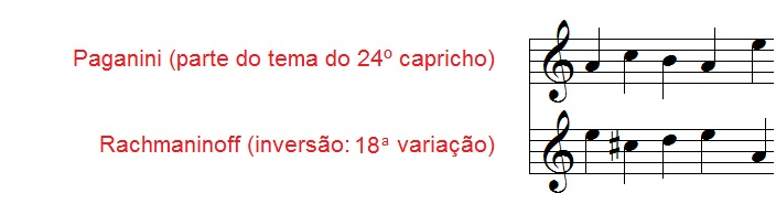 Rapsódia Sobre um Tema de Paganini - Variação 18 - Inversão